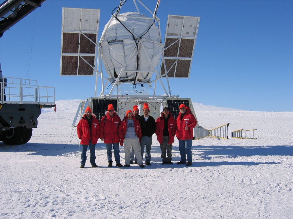 Closeup of the ATIC balloon-experiment (Advanced Thin Ionization Calorimeter) to detect cosmic rays over Antarctica.